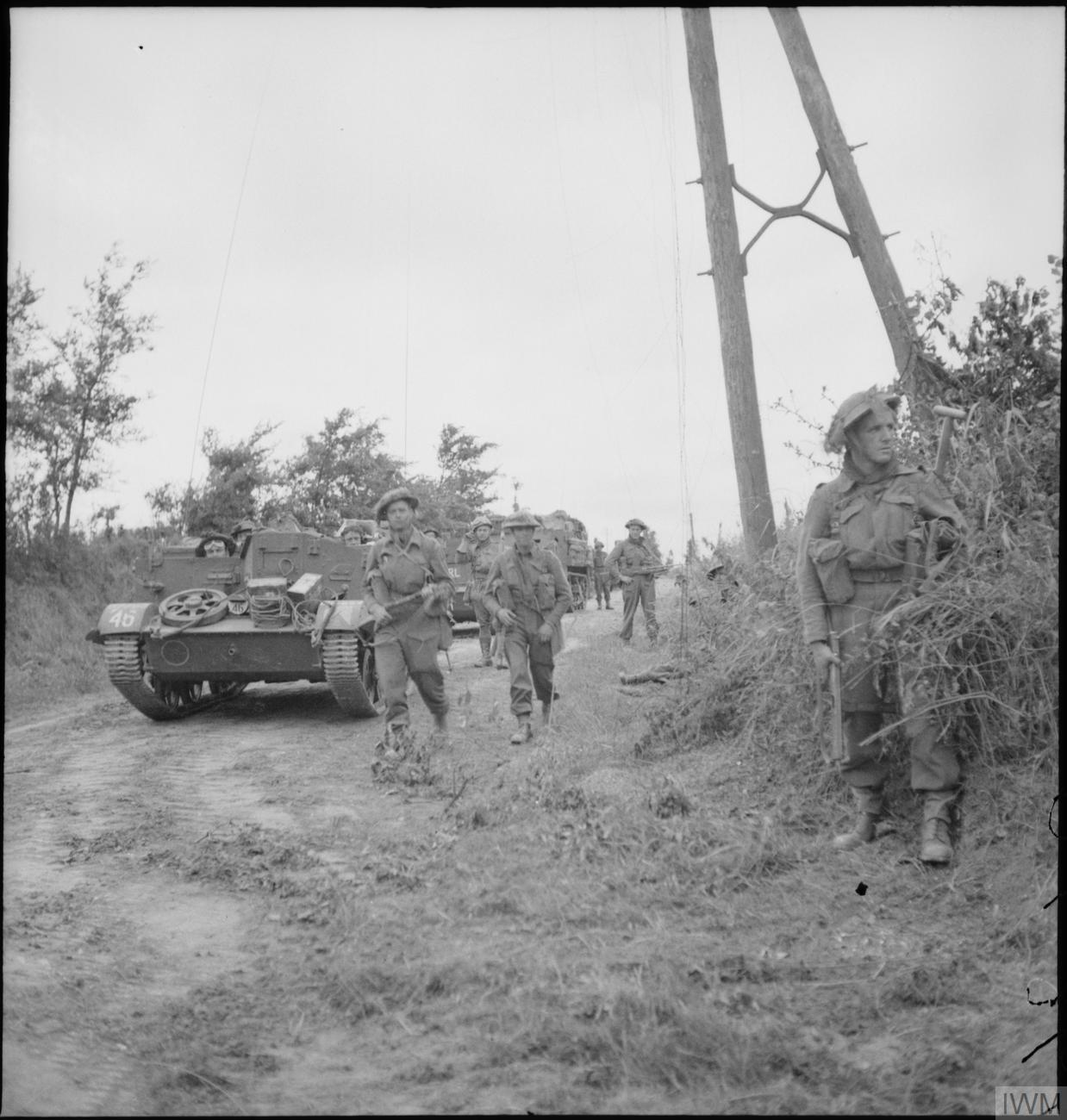 Infantry and carriers of 59th Division advancing during fighting around Caen, 11 July 1944.